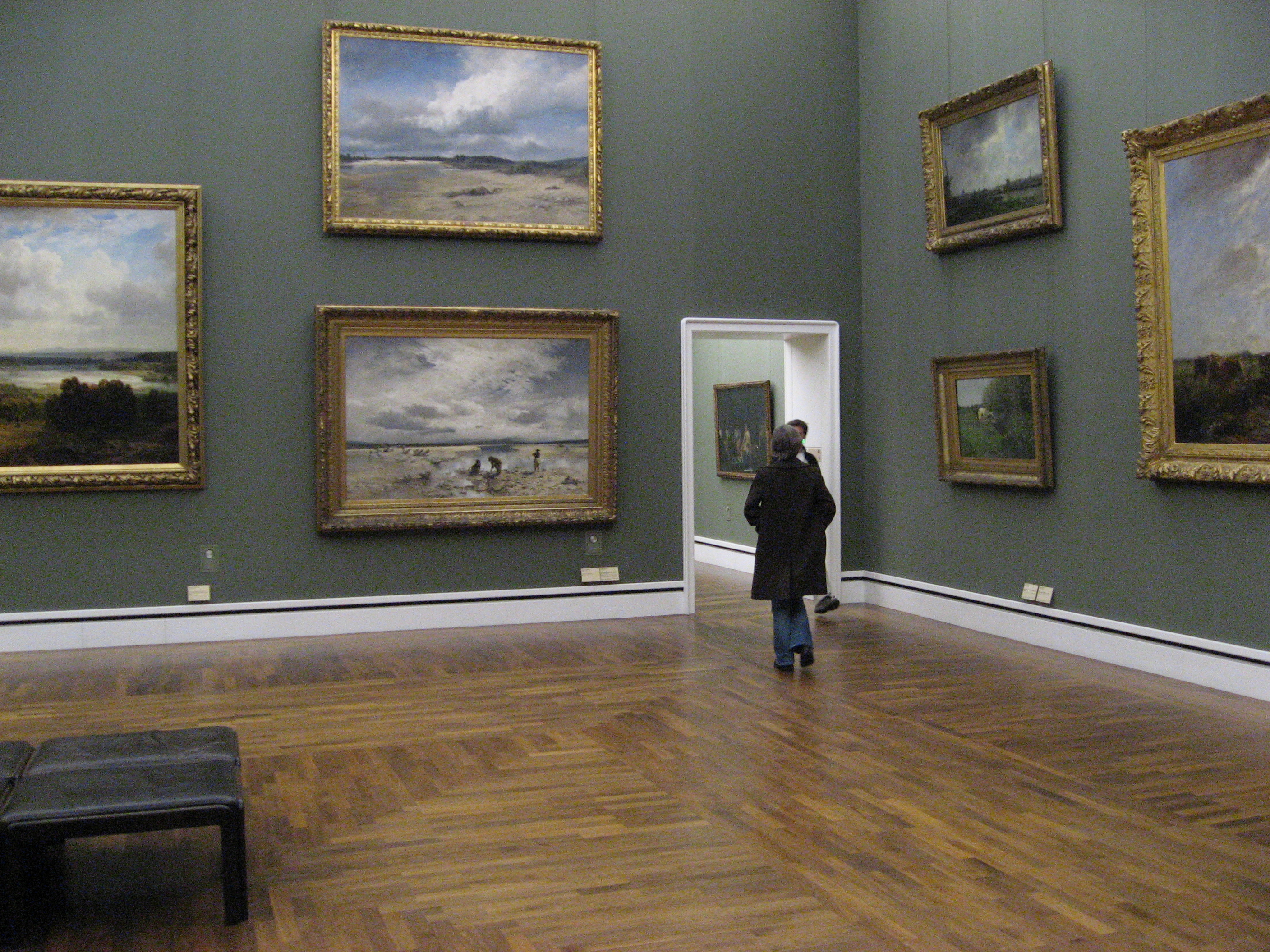 Interior view of one of the rooms of the Neue Pinakothek in Munich.